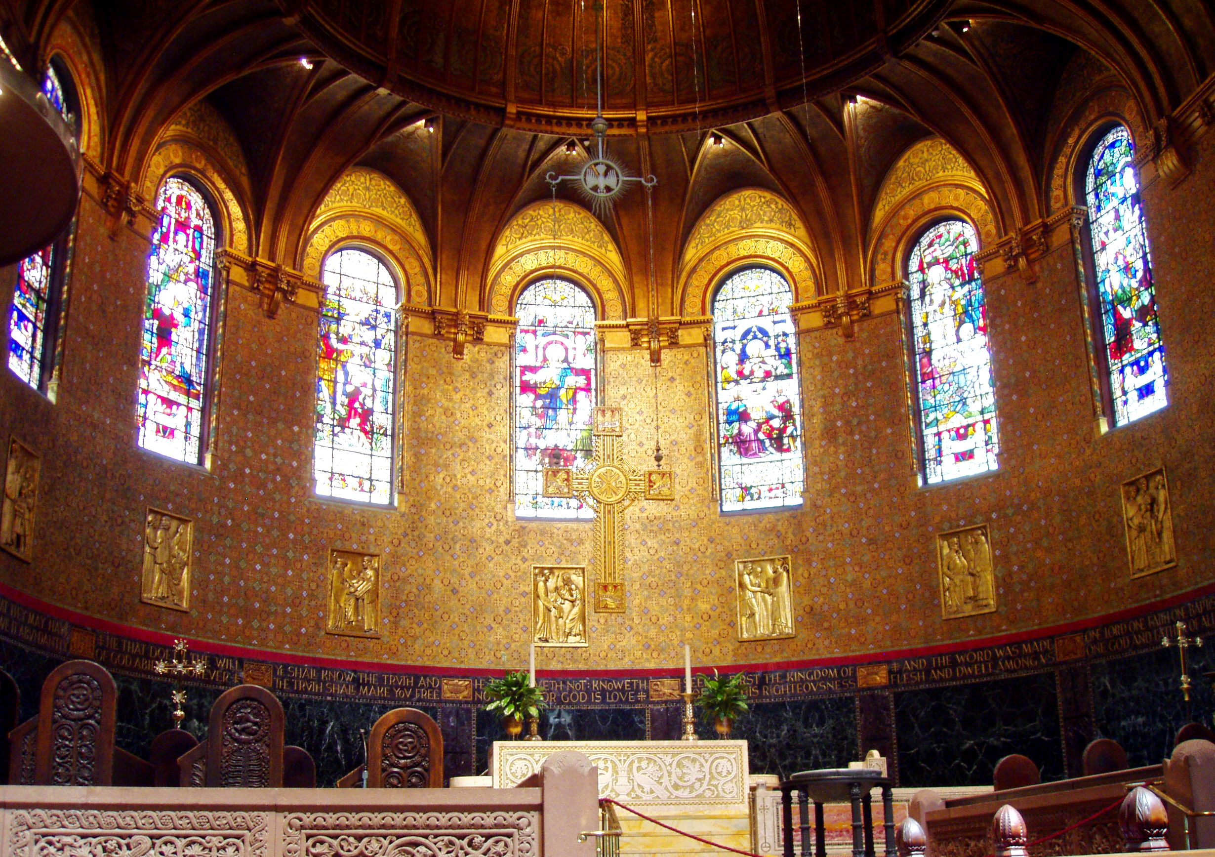 Altar of the Trinity Church, Boston, Massachusetts. Photograph taken by me, July 2005.